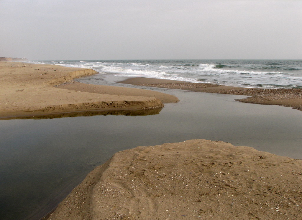 Baraboy river